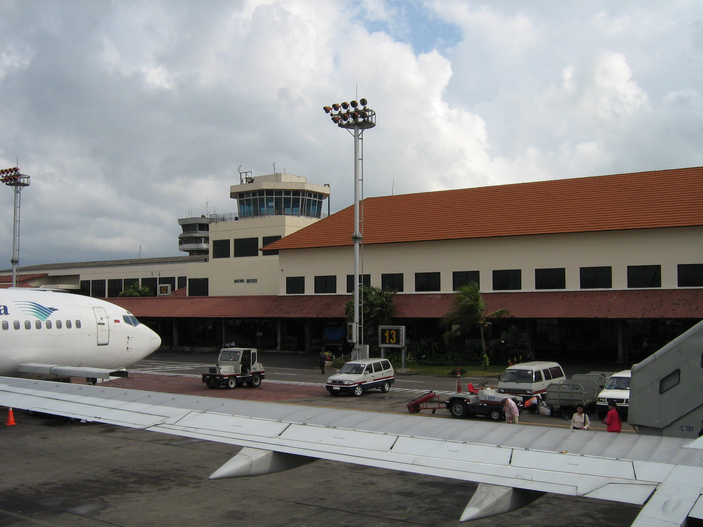 national terminal at Denpasar Airport